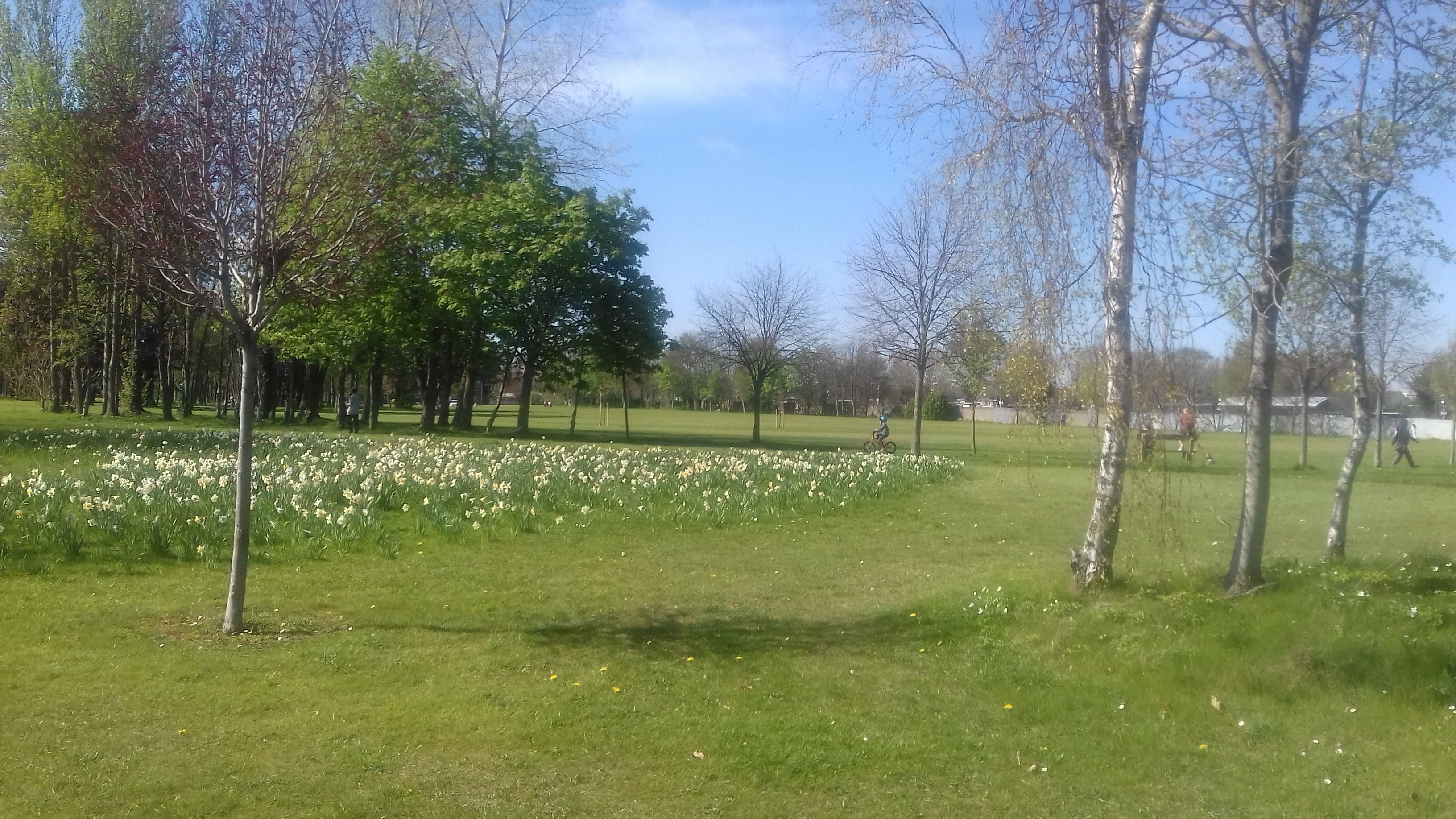 Dublin in April 2020 during the COVID-19 lockdown. The green is the centre of the Laurel Lodge district in the Catholic parish of St Thomas, the Apostle.